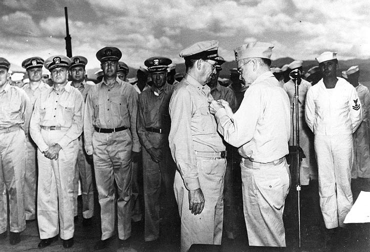 Rear Admiral Willis A. Lee, Jr., US Navy, (center) is presented the Navy Cross by Admiral William Halsey, during ceremonies on board a US Navy warship in the South Pacific, circa January 1943. RAdm. Lee received the decoration in recognition of his achievements during the Naval Battle of Guadalcanal, 14-15 November 1942.